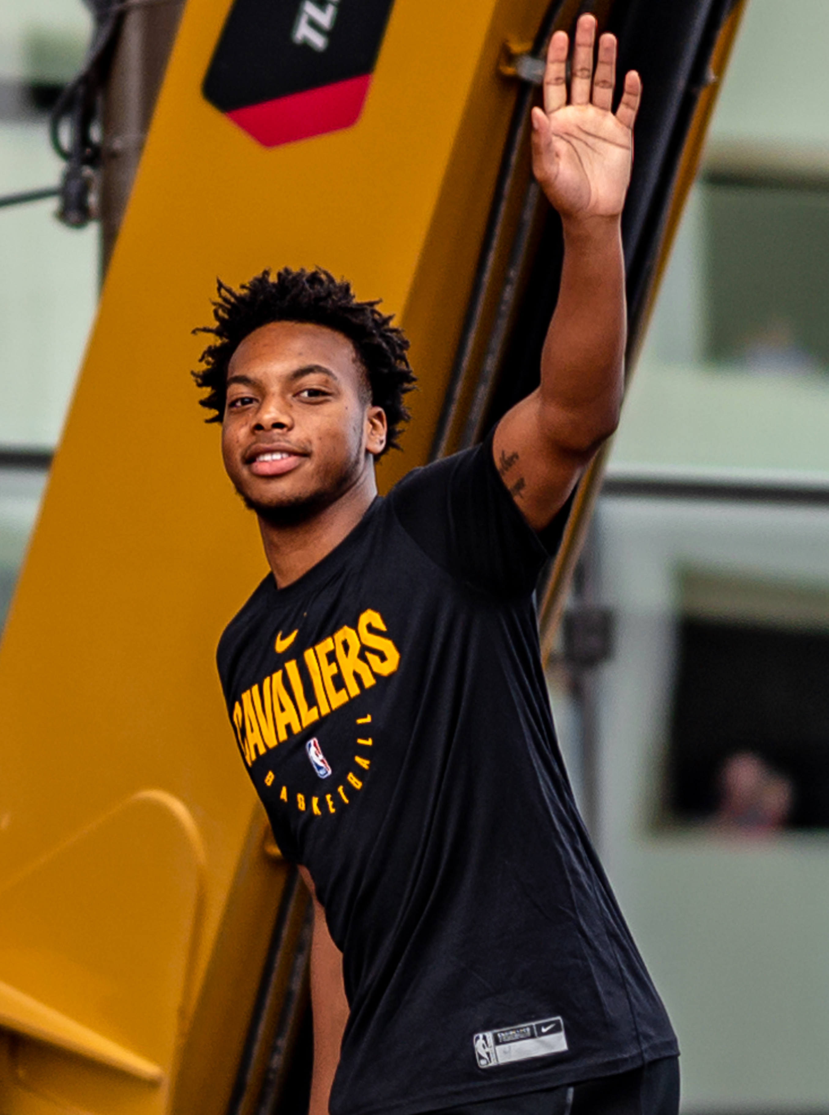 Darius Garland of the Cleveland Cavaliers waves to the crowd at the grand opening ceremony of Rocket Mortgage FieldHouse in Cleveland